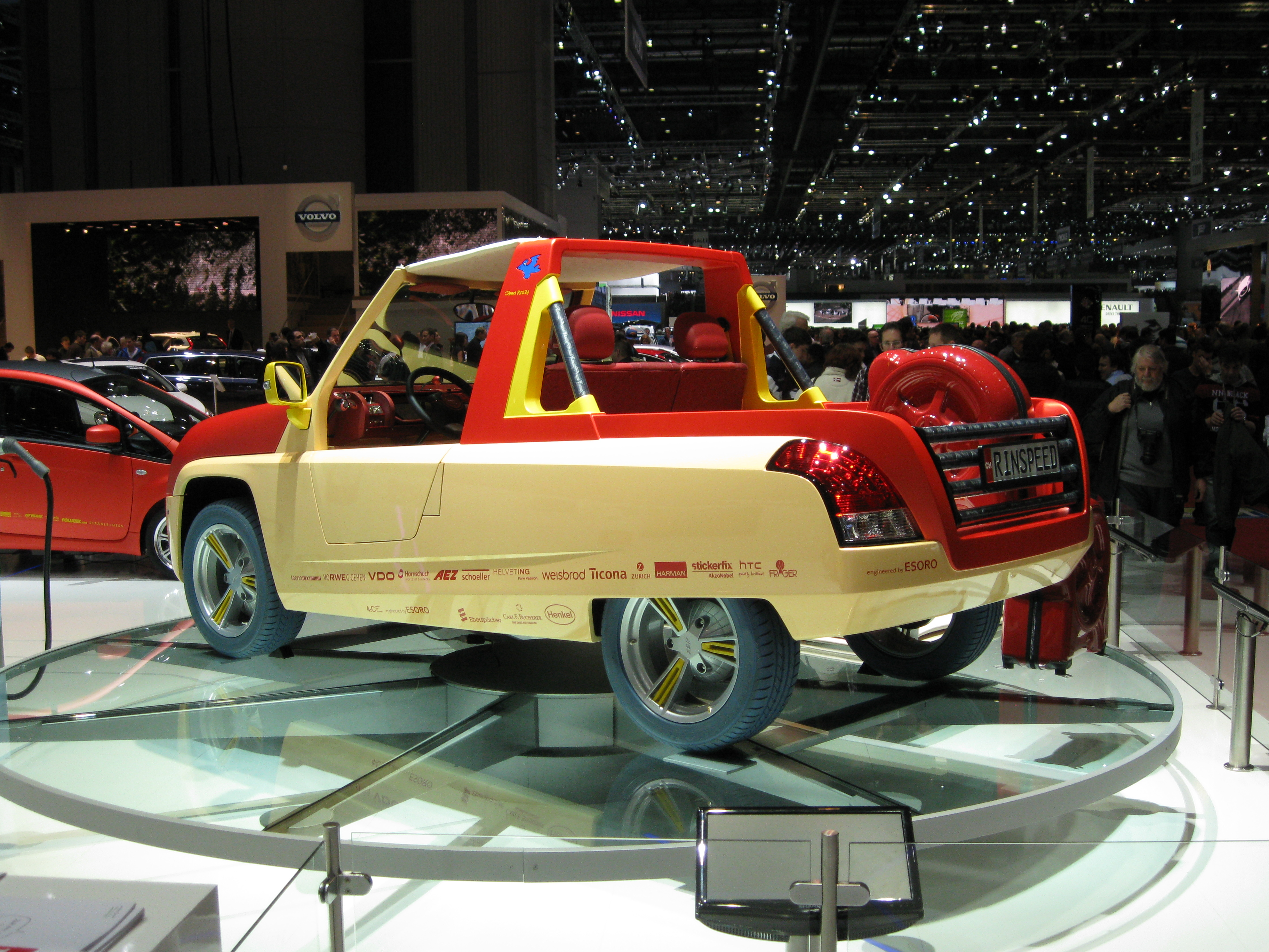 Geneva Motor Show 2011